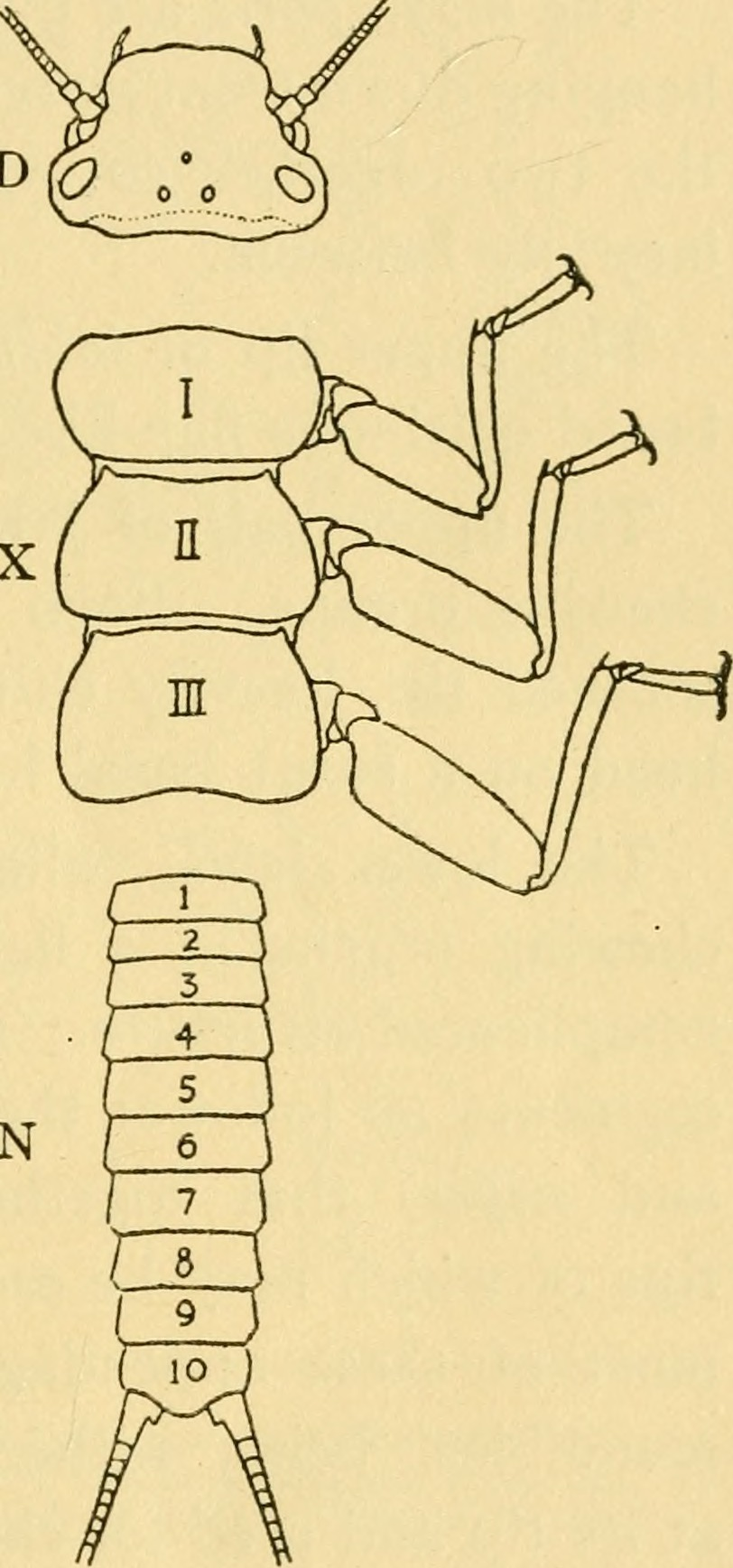 Title: Elementary lessons on insects Year: 1928 (1920s) Authors: Needham, James G. (James George), 1868-1956 Subjects: Insects Publisher: Springfield, Ill. , Baltimore, Maryland, C. C. Thomas Text Appearing Before Image: WHAT AN INSECT IS LIKE: OUTSIDE HEAD THORAX The head bears the eyes, the antennae and the mouth- parts. The eyes are of two sorts: Compound eyes: a single large pair at the sides of the head. If the surface of one of these be examined with a lens it will be seen to be com- posed of a multitude of shining, transparent hex- agonal facets. Each facet bears a little lens through which the light enters, to reach the sensitive nervous apparatus in- side. Each unit of the compound eye contri- butes its own spot light, giving inside what is called a mosaic pattern. This type of eye, so dif- ferent from our own, is believed to be especially good for detecting mov- ing objects. Simple eyes, or ocelli: there are three of these on the top of the head between the compound eyes, minute shining con- vex spots, each with a single lenticular cornea; one ocellus ABDOMEN Text Appearing After Image: Fig. 2. -A diagram of the structure of an insect.